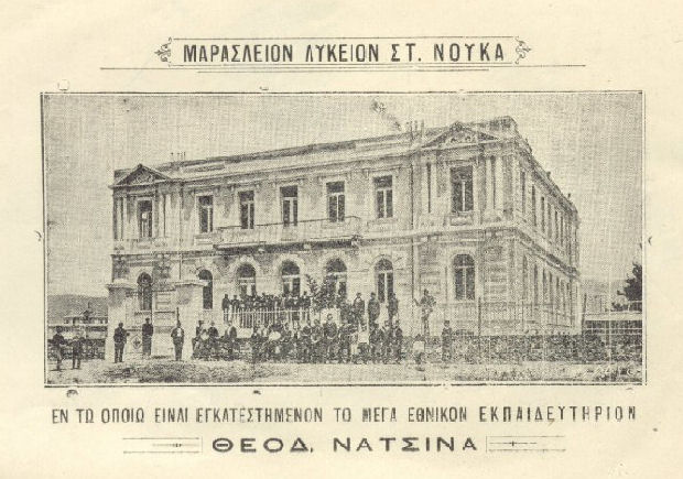 Picture of Maraslion building of Thessaloniki, while Theodoros M. Natsinas school functioned there.